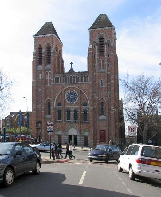 St Ignatius Stamford Hill, London N15